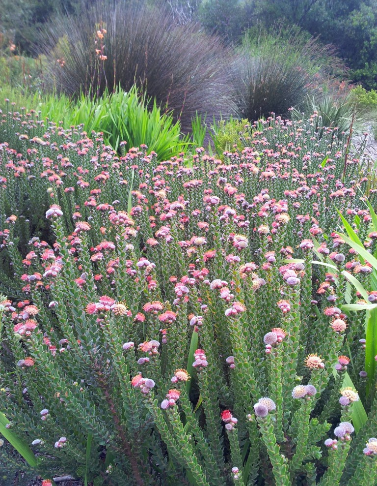 Leucospermum truncatulum - Mountain fynbos